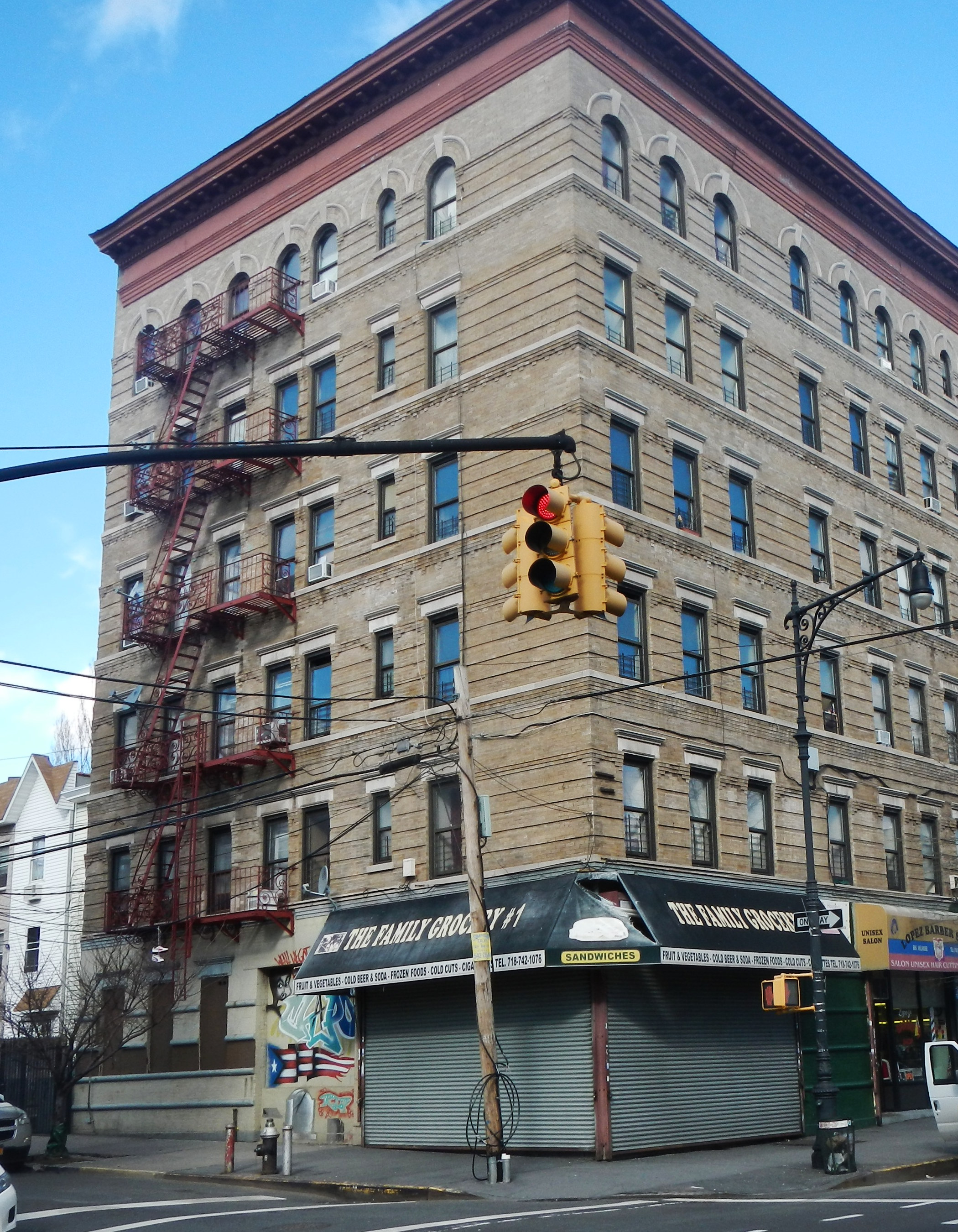 Looking northwest at apartment house on a partly sunny day.